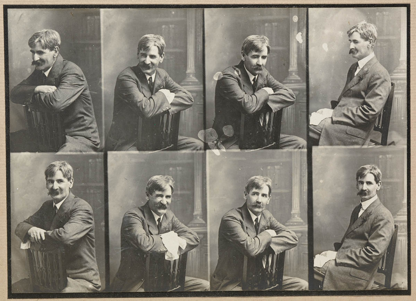 Format: Silver gelatin photoprint Notes: Henry Lawson (1867-1922) was an Australian writer, poet and journalist. He is best known for his bush poems and short stories, including the anthology 'While the billy boils'. Find more detailed information about this photograph: .au/item/itemDetailPaged.aspx?itemID=442278 Search for more great images in the State Library's collections: .au/search/SimpleSearch.aspx From the collection of the State Library of New South Wales